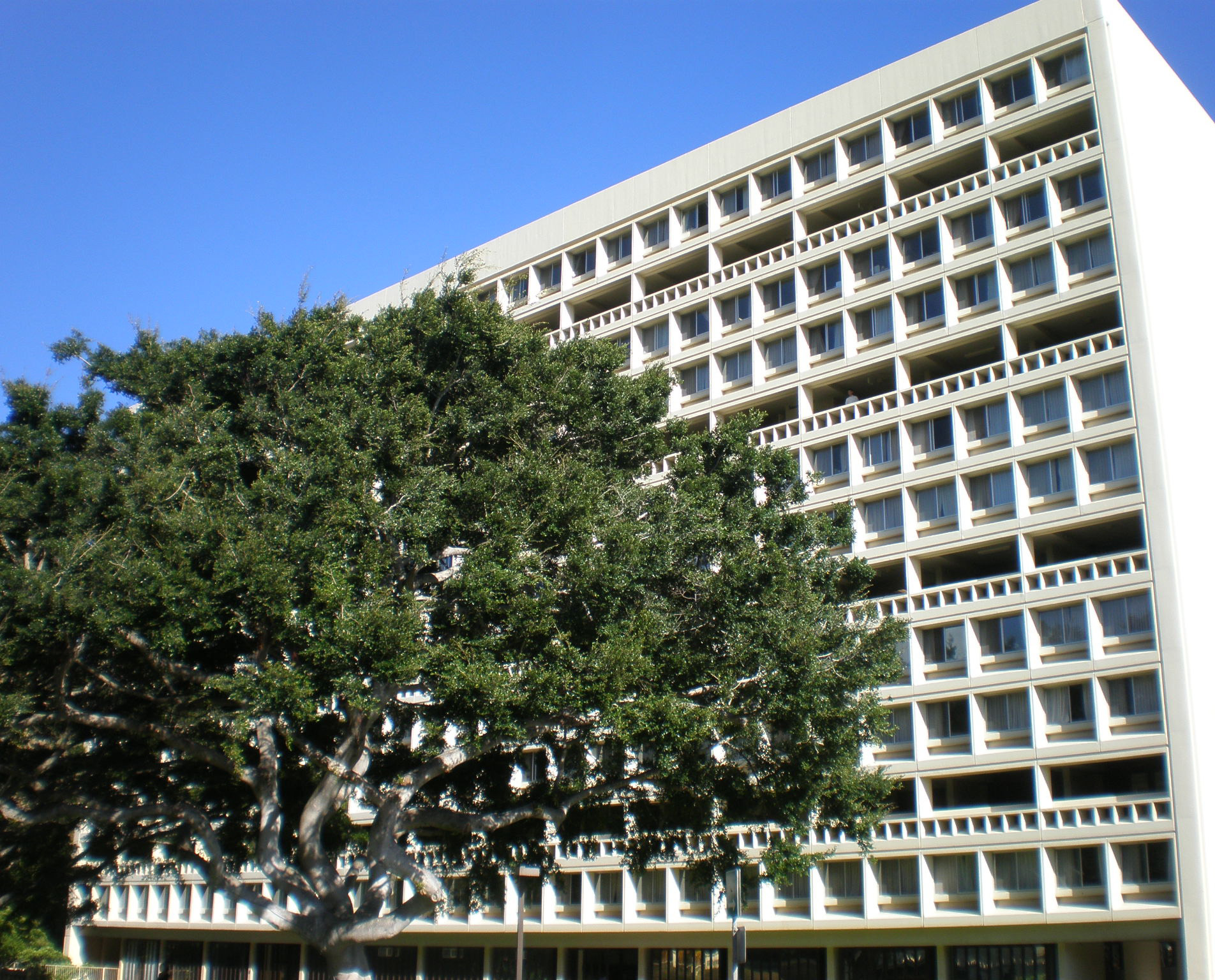 Hale Manoa Dormitory, East-West Center, 1711 East-West Road, Honolulu, Hawaii, architect I.M. Pei